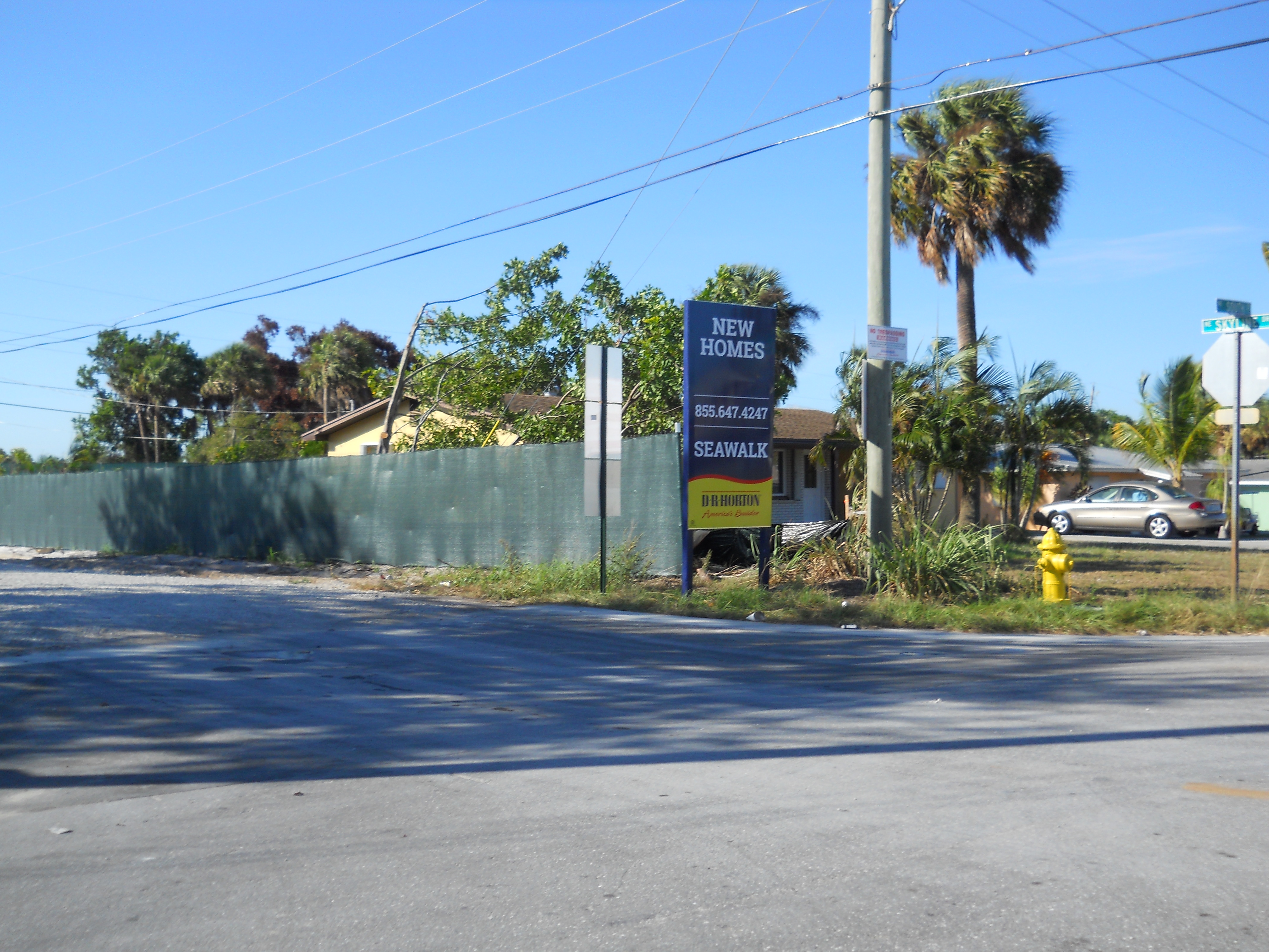 Seawalk sign at the south west corner of NorthEast South Street and NorthEast Skyline Drive, entering the Town of Ocean Breeze, Florida